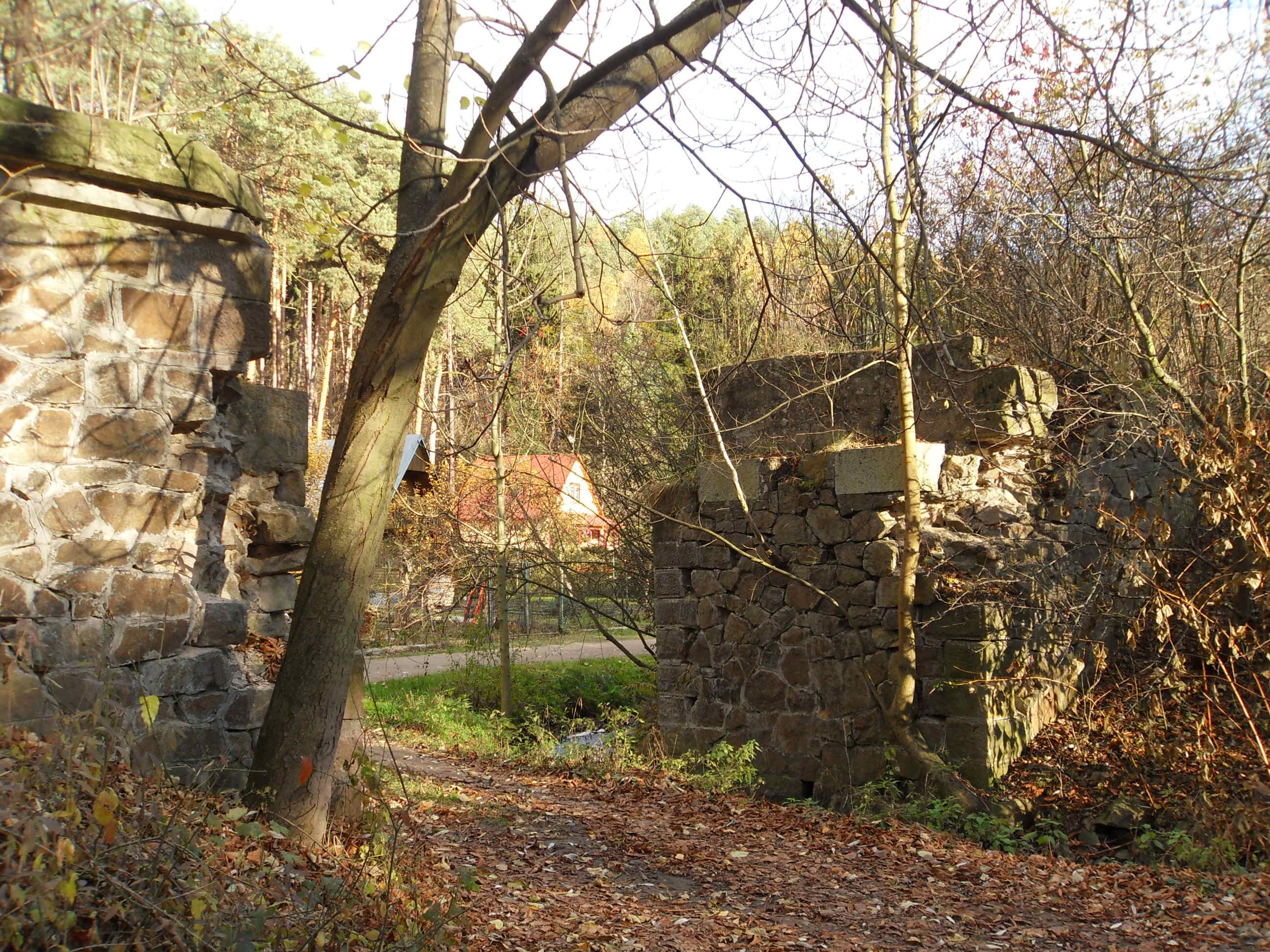 Former railway line Brno - Tišnov, Jehnice, Brno, Czech Republic